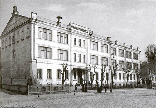 Moscow Institute of the deaf-mute.